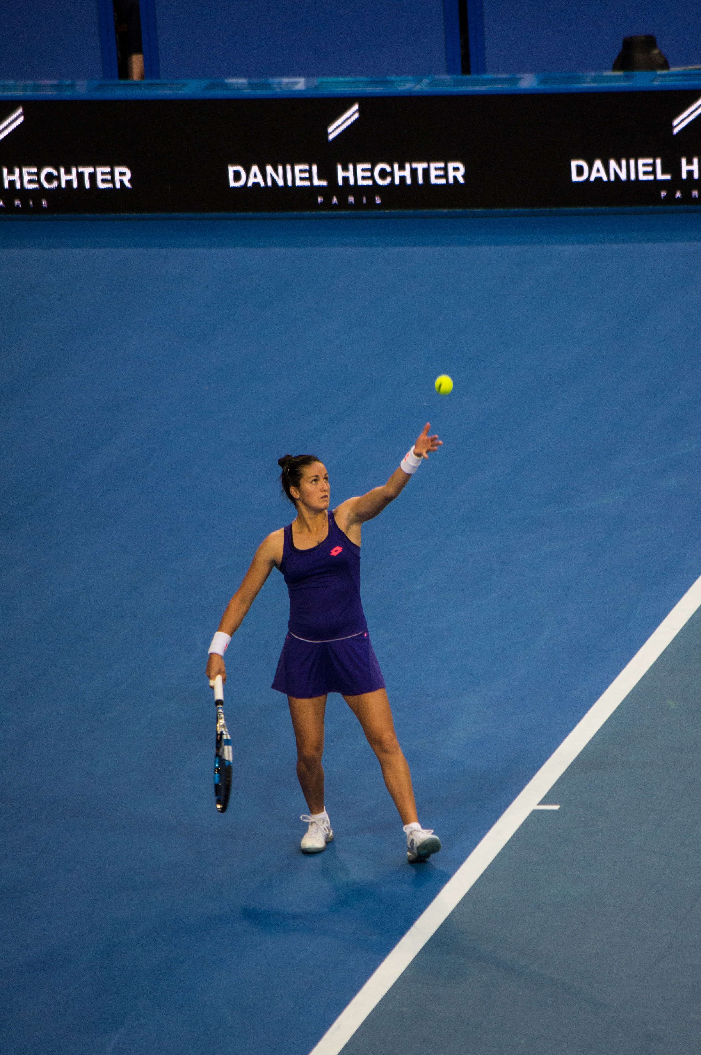 2017 Hopman Cup Lara Arruabarrena Practice